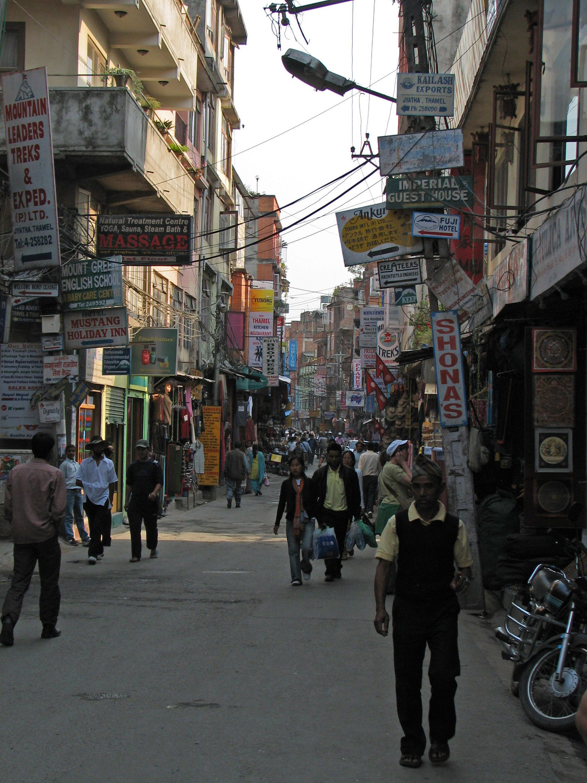 The tourist district of Thamel is a warren of busy, narrow streets. Shops spill out to compete for space with hawkers, touts and bicycle rickshaws. It is a bustle of signs and cries and horns, but there are plenty of cafes and rooftops to calm one's nerves and as a popular traveller's destination, you are never far from a German bakery, restaurant serving pizza or a CD shop blaring popular tunes. My favorite was the live music scene and a cup of Nepali masala chai on a rooftop or courtyard patio.